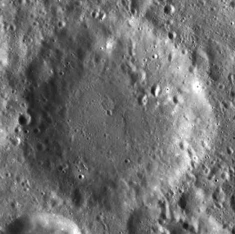 Part of the chart LAC-41